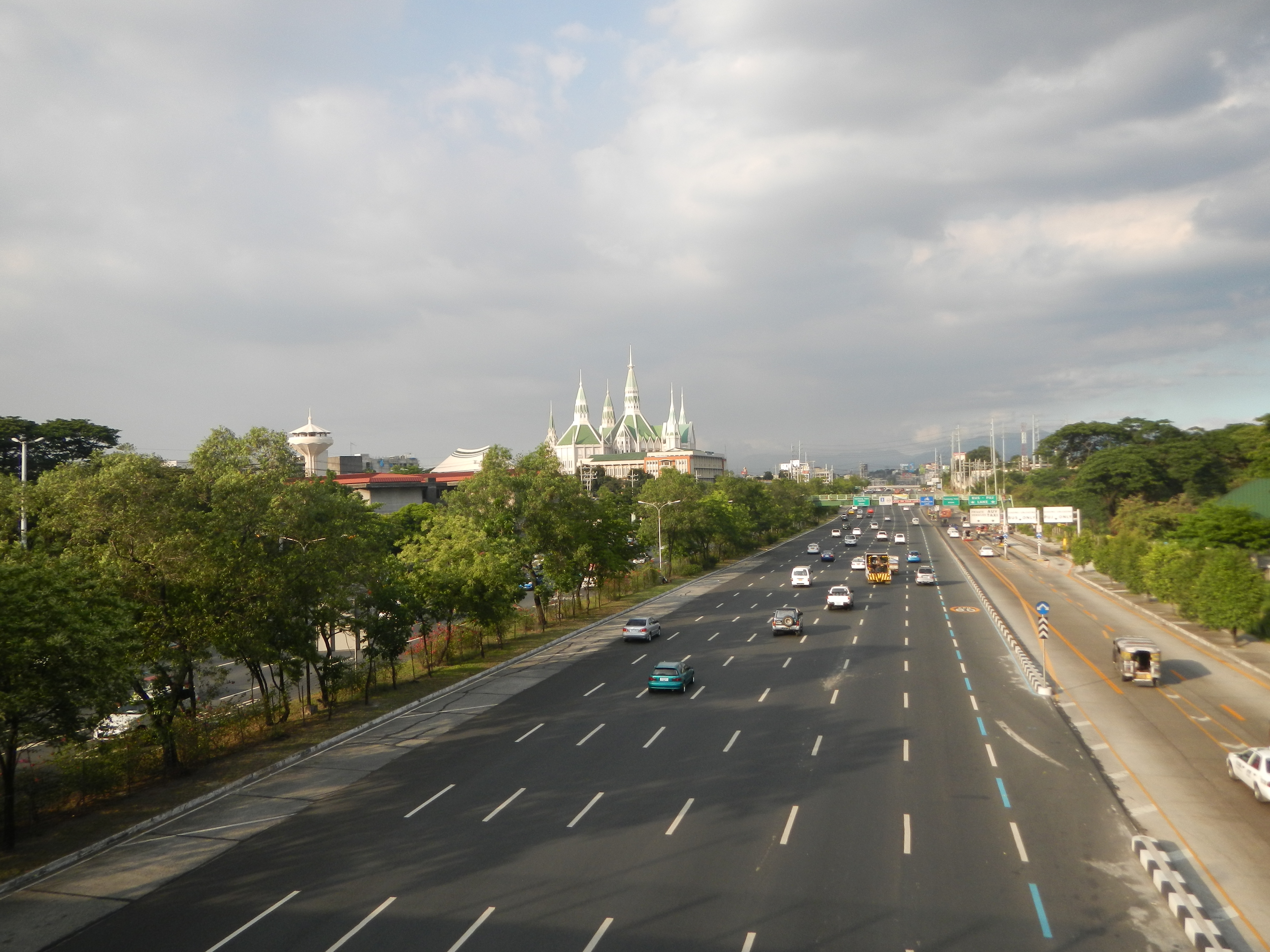 View from the Foot Bridge of Commonwealth Avenue, Quezon City[1](Tagalog: Abenida Komonwelt), formerly called as Don Mariano Marcos Avenue, named after the father of President Ferdinand Marcos, is a 12.4 km (7.7 mi) highway located in Quezon City, Philippines which spans from 6 to 18 lanes and known as the widest in the Philippines. It is one of the major roads in Metro Manila and is designated as part of Radial Road 7 (R-7). The Commonwealth Avenue starts from the Quezon Memorial Circle inside the Elliptical Road, it passes through the areas of Philcoa, Tandang Sora, Balara, Batasan Hills and ends at Quirino Highway in the Novaliches area.